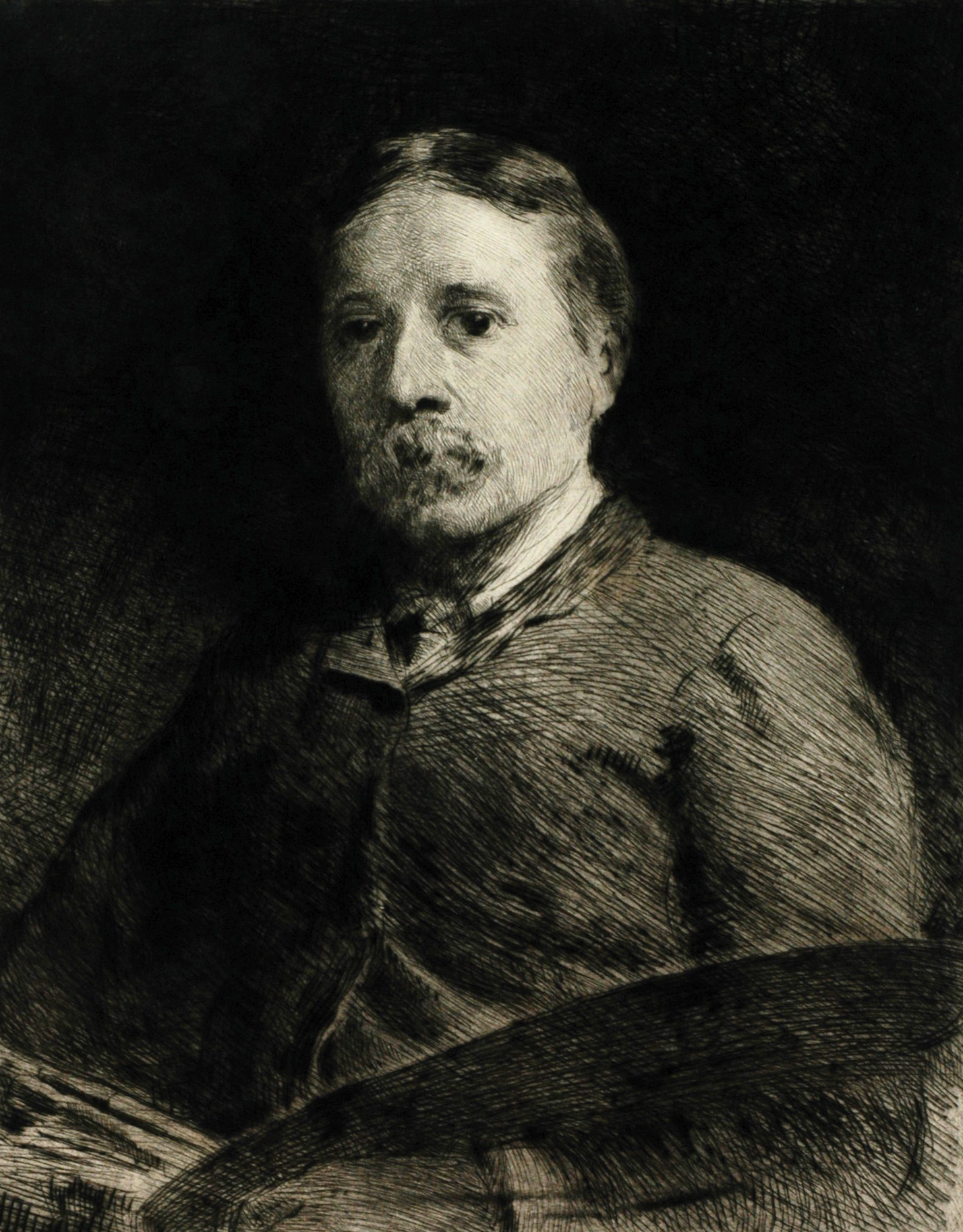 Portrait of Heywood Hardy by Frank Holl RA. Drypoint